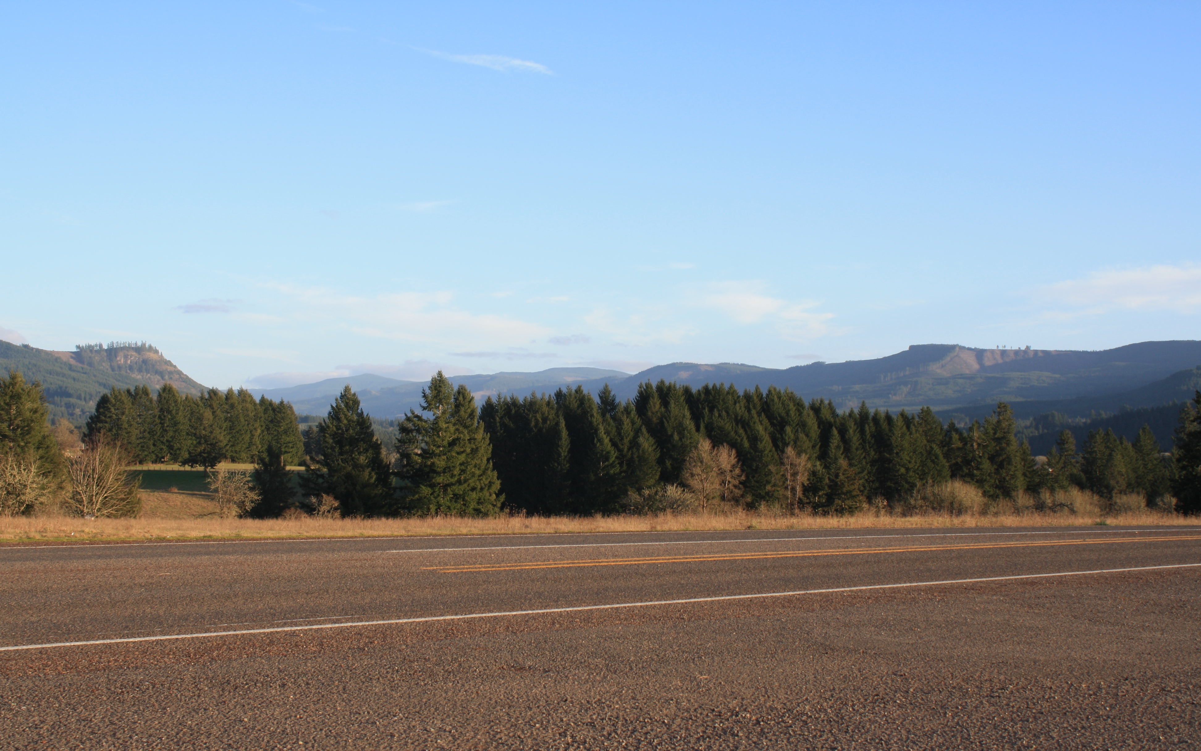 Oregon Route 228 overlooking the upper Calapooia River valley near Holley, Oregon